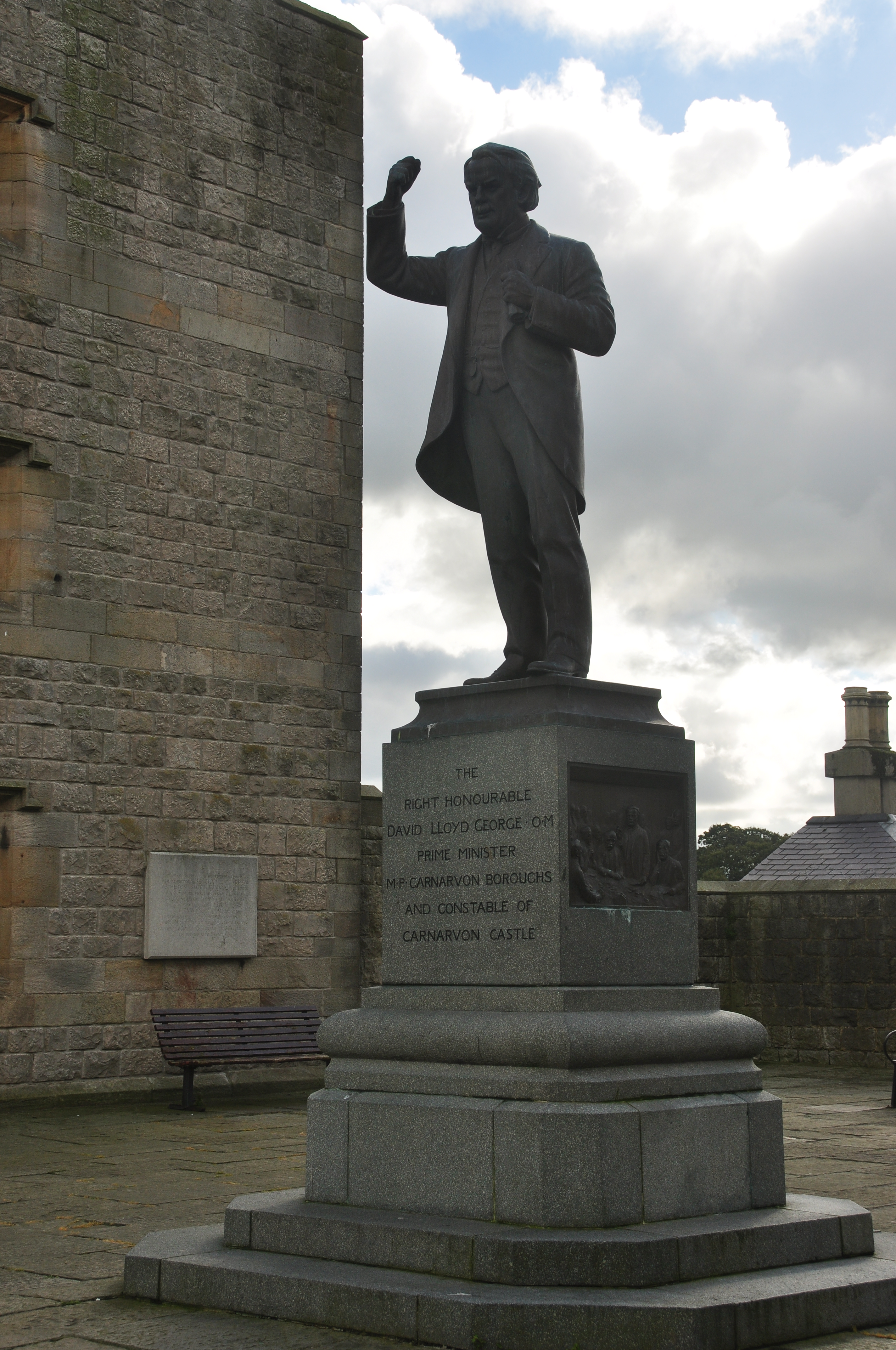 Lloyd George statue in Caernarfon